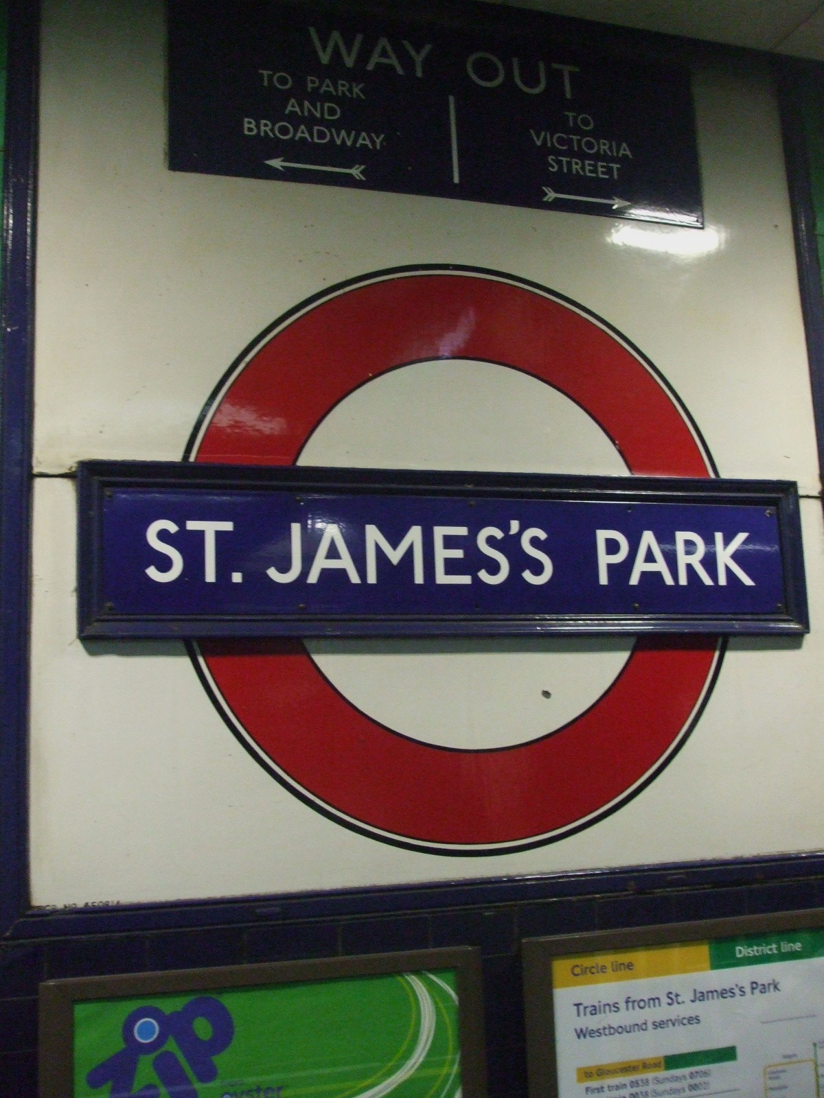 St James's Park tube station platform roundel